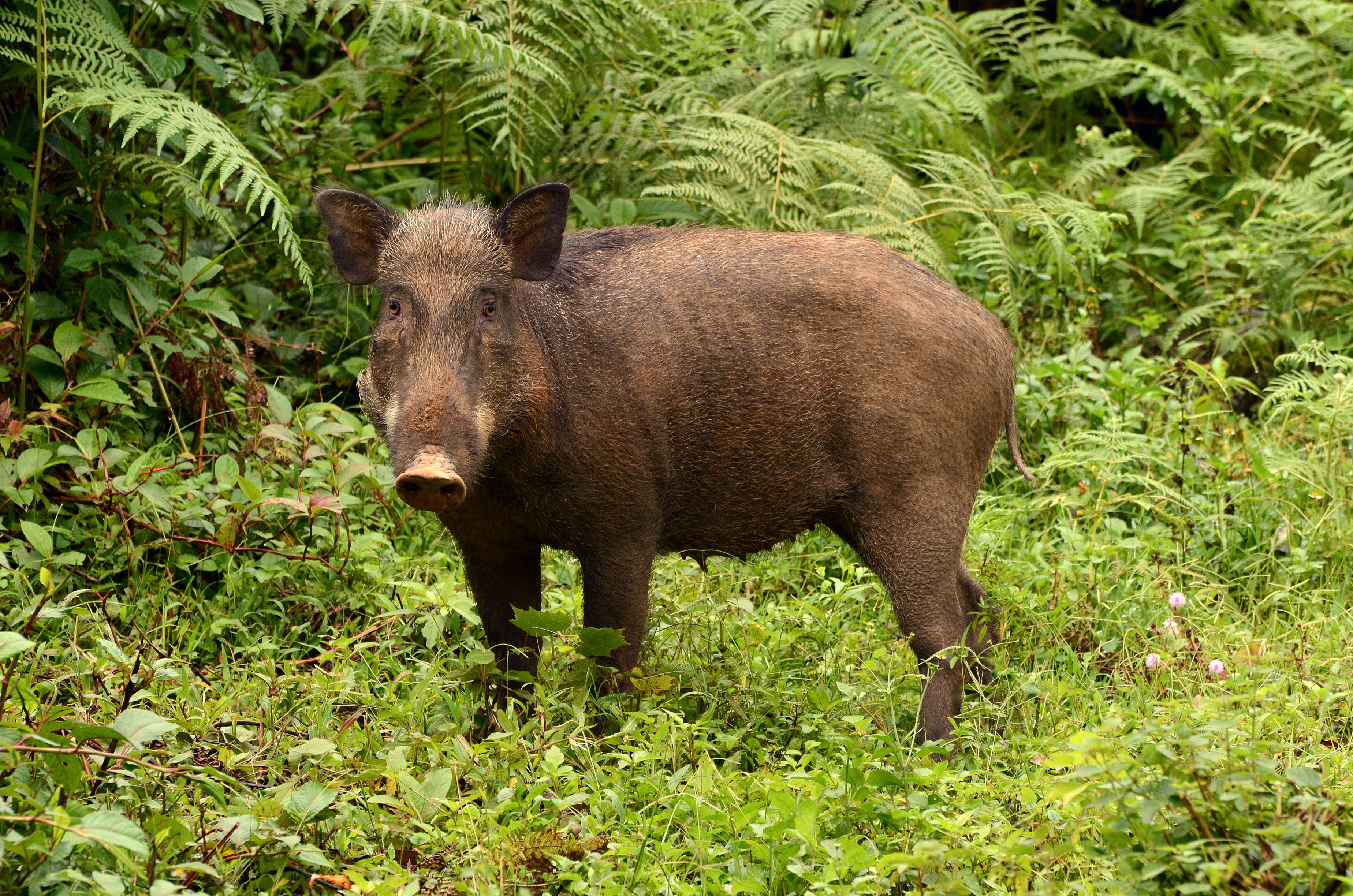 Female Wildboar from Anamalai hills, Southern Western Ghats, India